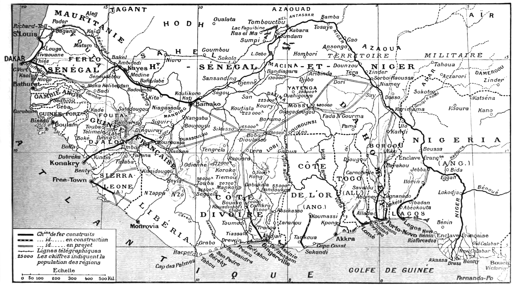 Map of the railroads in French West Africa, 1911